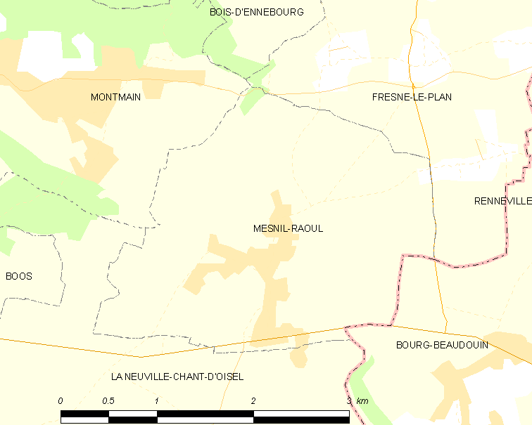 Map of French municipality Mesnil-Raoul